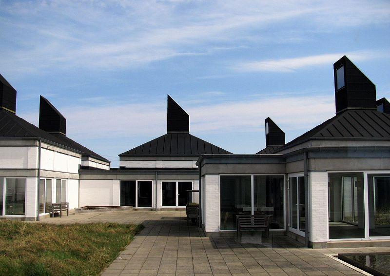 Skagen Odde Naturcenter cropped to removed copyright mark